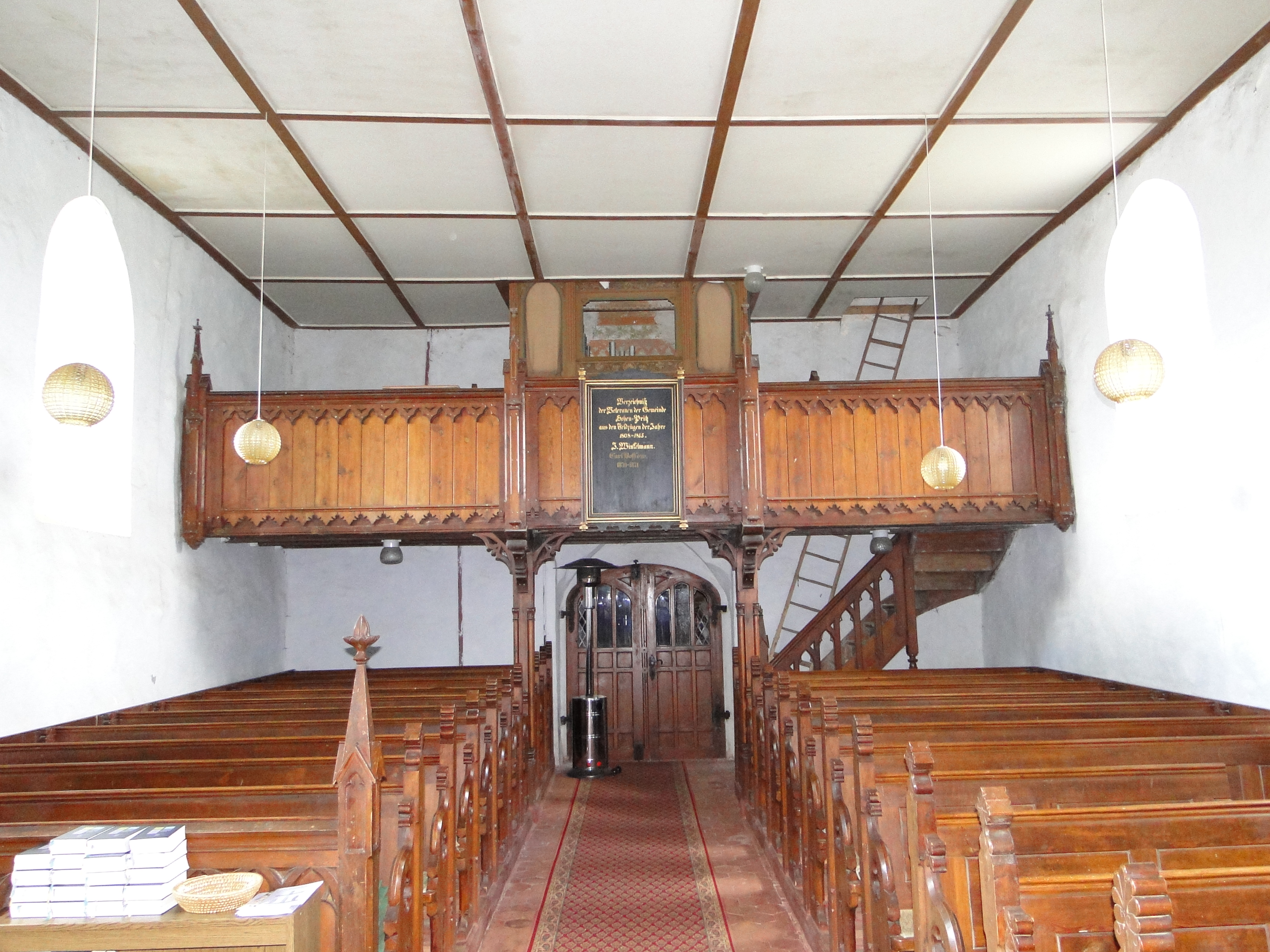 Church in Hohen Pritz, district Ludwigslust-Parchim, Mecklenburg-Vorpommern, Germany